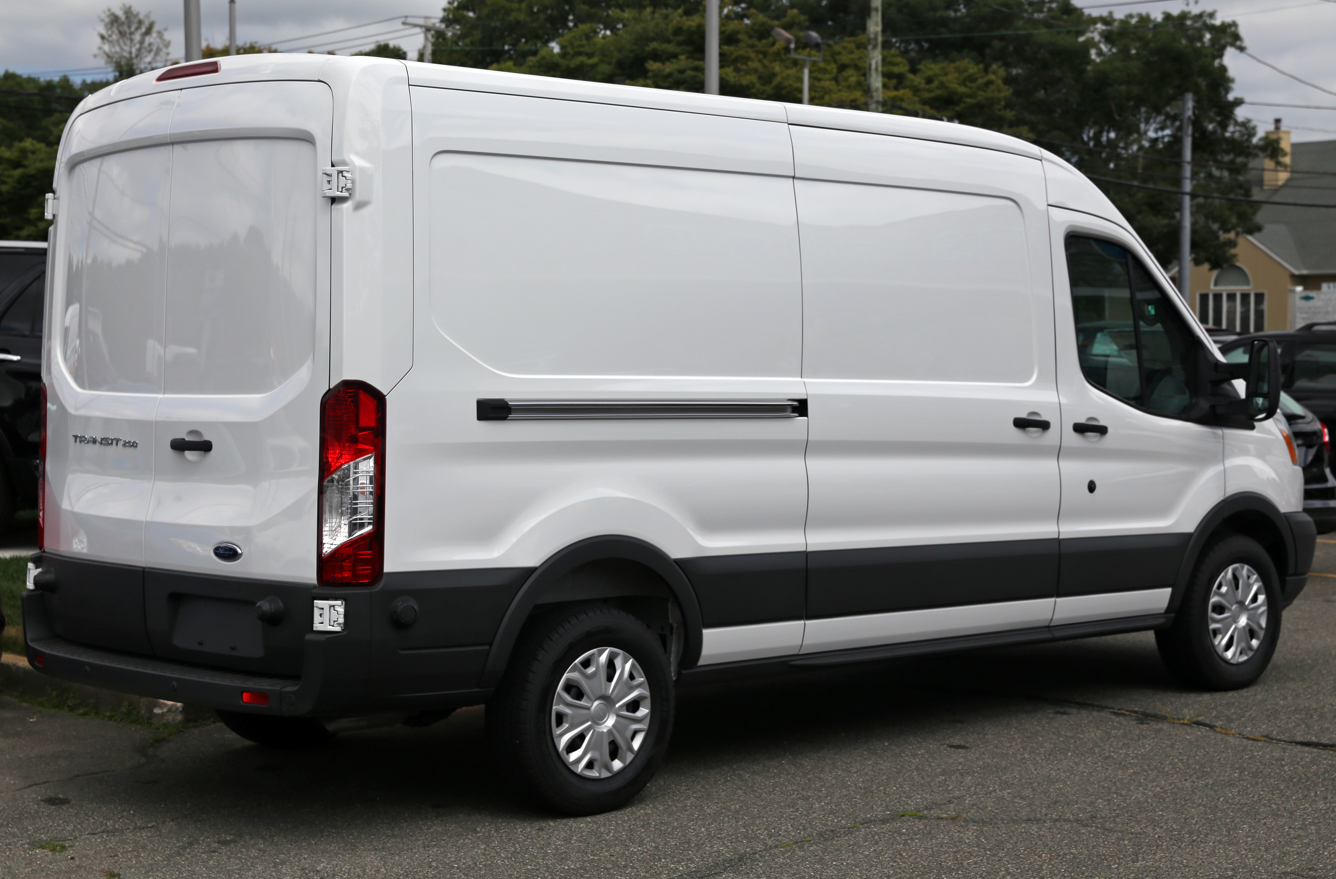 A 2015 Ford Transit 250. This is the middle roof height (of three available), on a 148" wheelbase and with the 3.7 litre Ti-VCT engine with 275hp. Oxford white and fitted with a "Preferred Equipment Package".